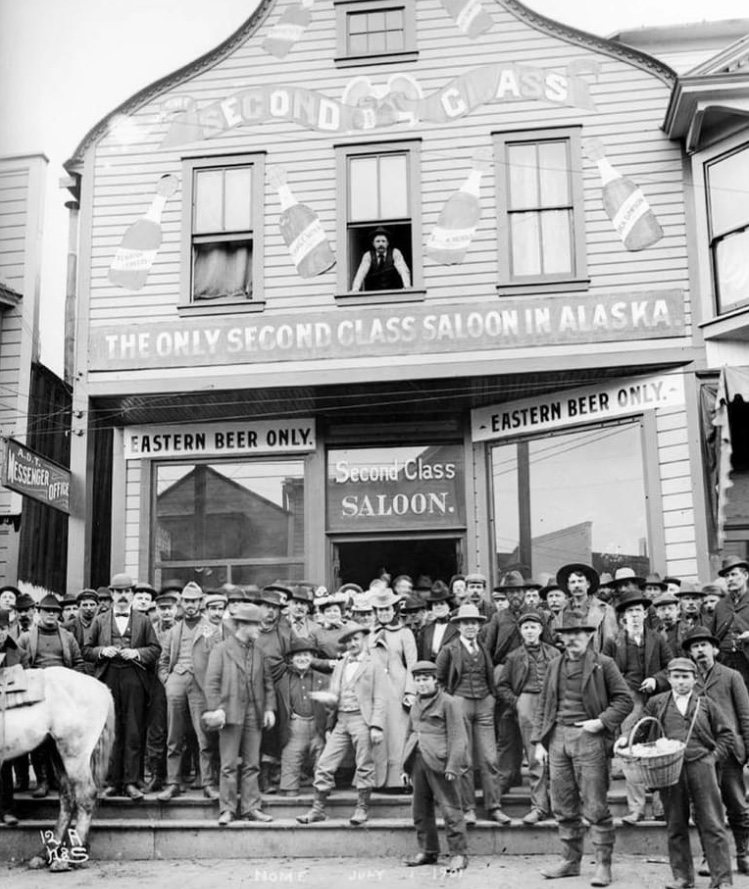 Wyatt Earp billed his Dexter Saloon in Nome, seen here in 1901, as, "The only second class saloon in Alaska." (From the Eric Hegg Collection, University of Washington HEG425)